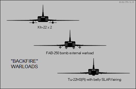 Front-view silhouettes showing Tupolev Tu-22M external stores